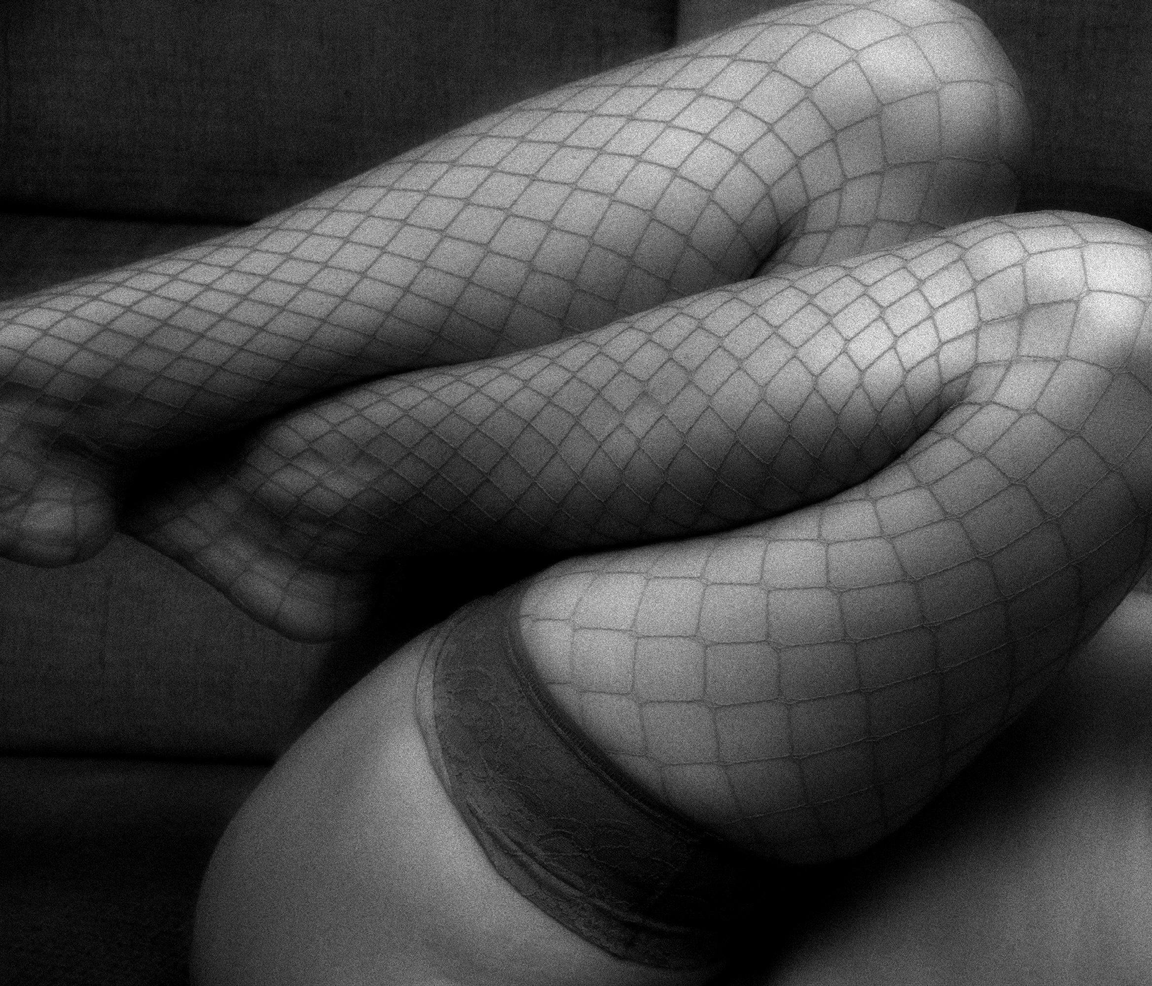 "... not to see the sun..." by Oneras / Mario Antonio Pena Zapatería [1]